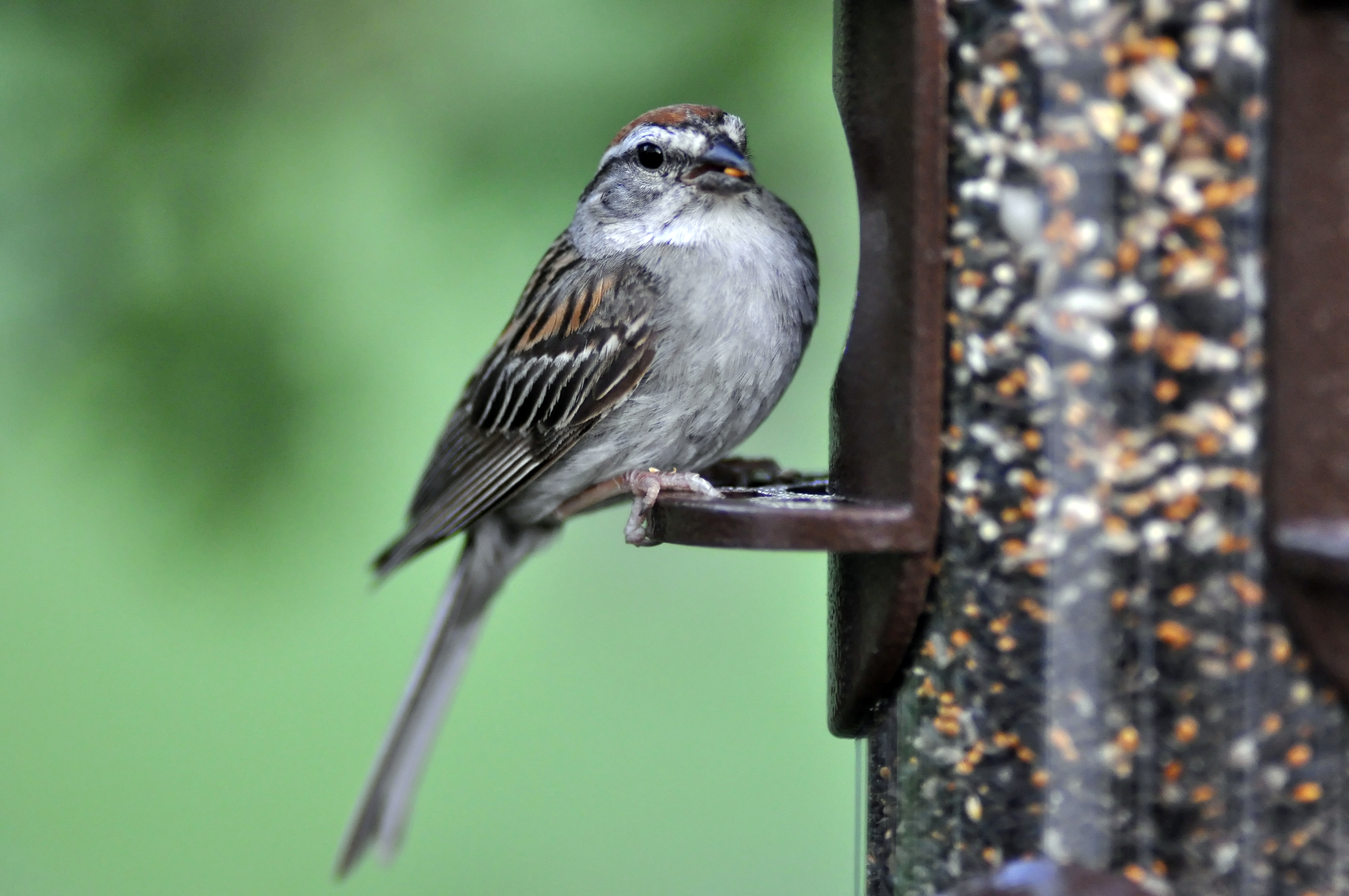 Chipping Sparrow Spizella passerina at a feeder.